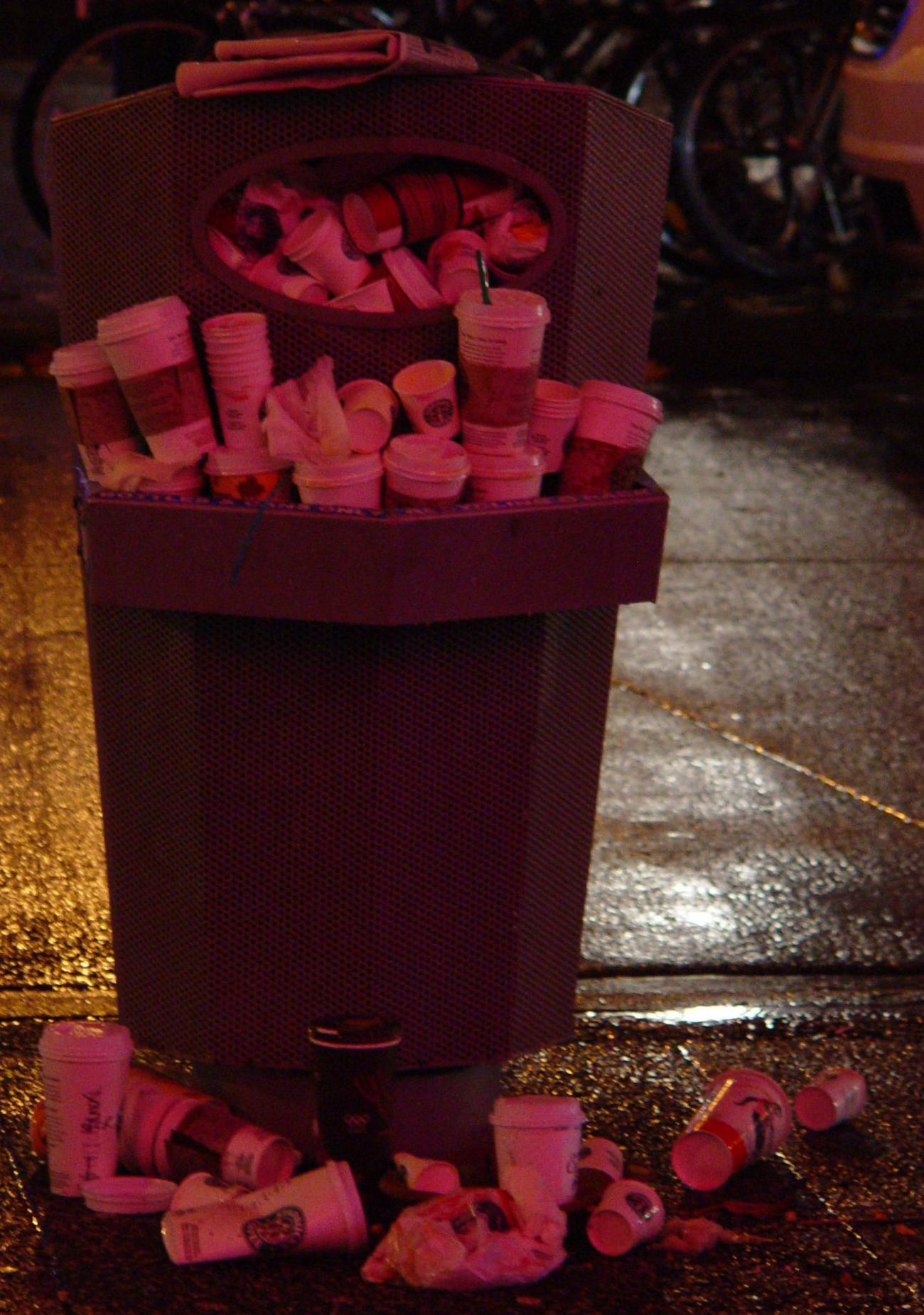 A bin filled to overflowing with Starbucks coffee paper cups.